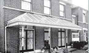 Woodgrange Estate Conservation Area E7